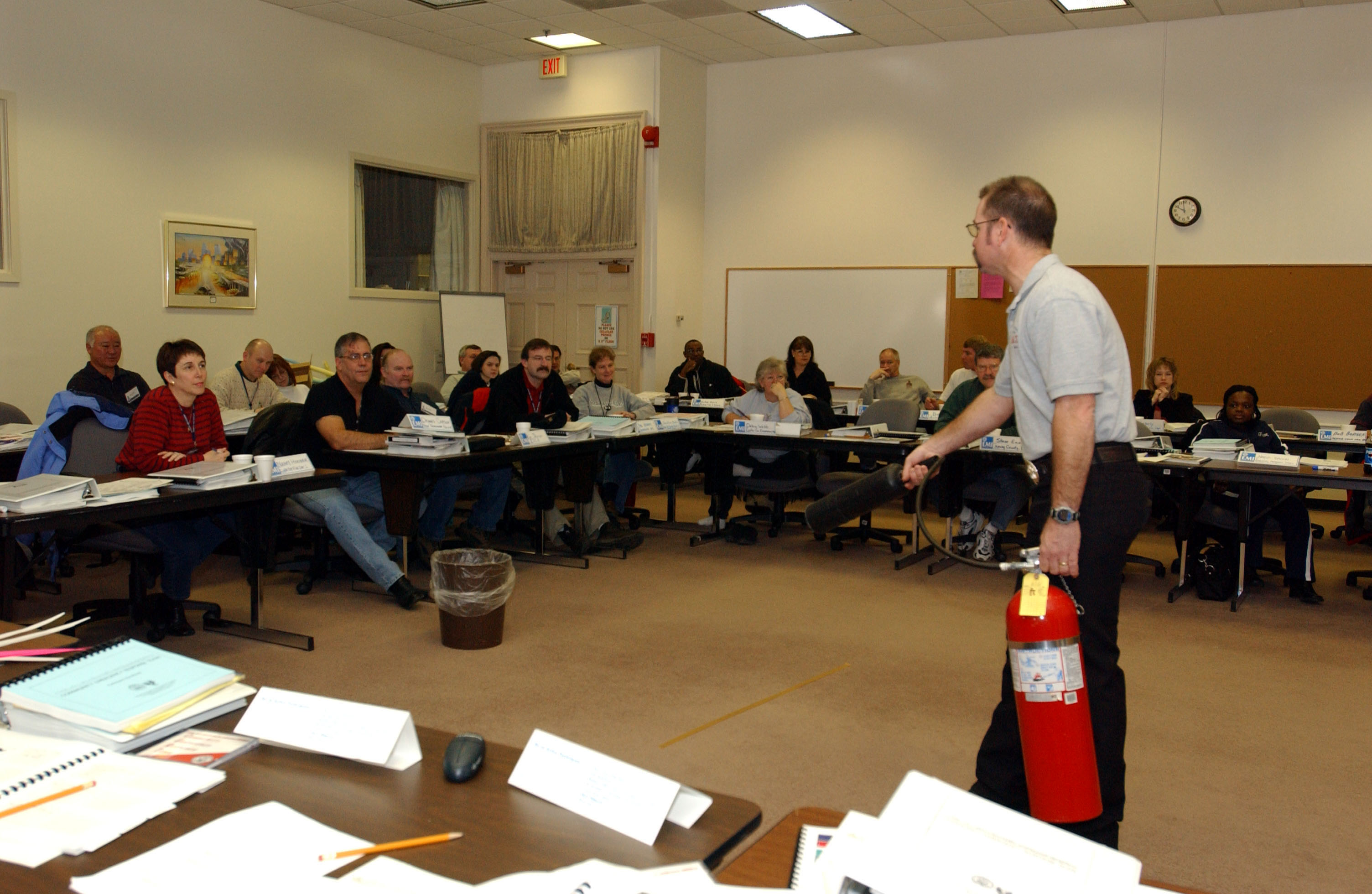 Emmitsburg, MD, March 10, 2003 -- FEMA's National Emergency Training Center is the site for dozens of classes, including sessions that train Community Emergency Response Team (CERT) leaders from across the country. CERT is an important tool for local emergency managers. Photo by Jocelyn Augustino/FEMA News Photo